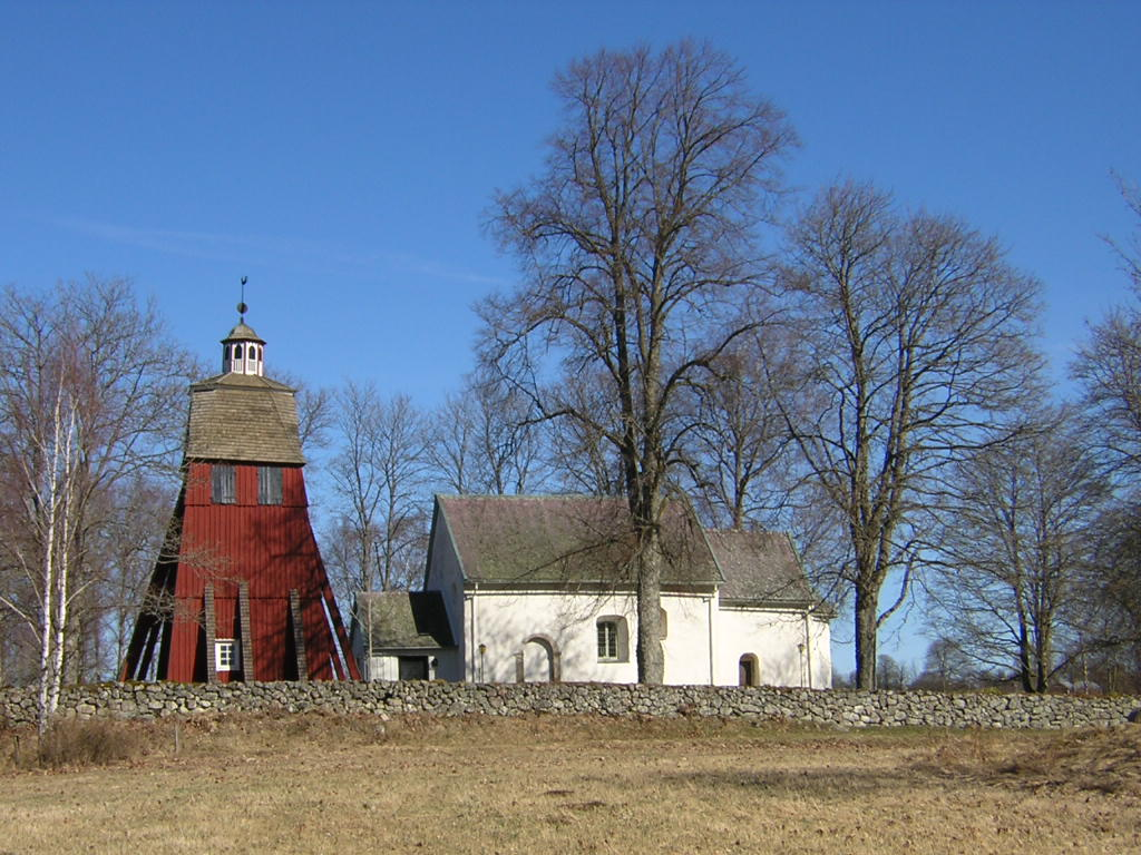 Hjärtlanda church in Småland, Sweden